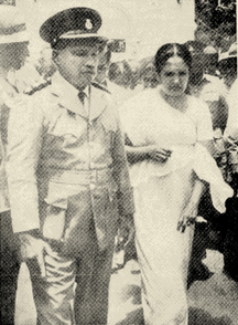 Sirimavo Bandaranaike, Prime Minister of Ceylon, 1961